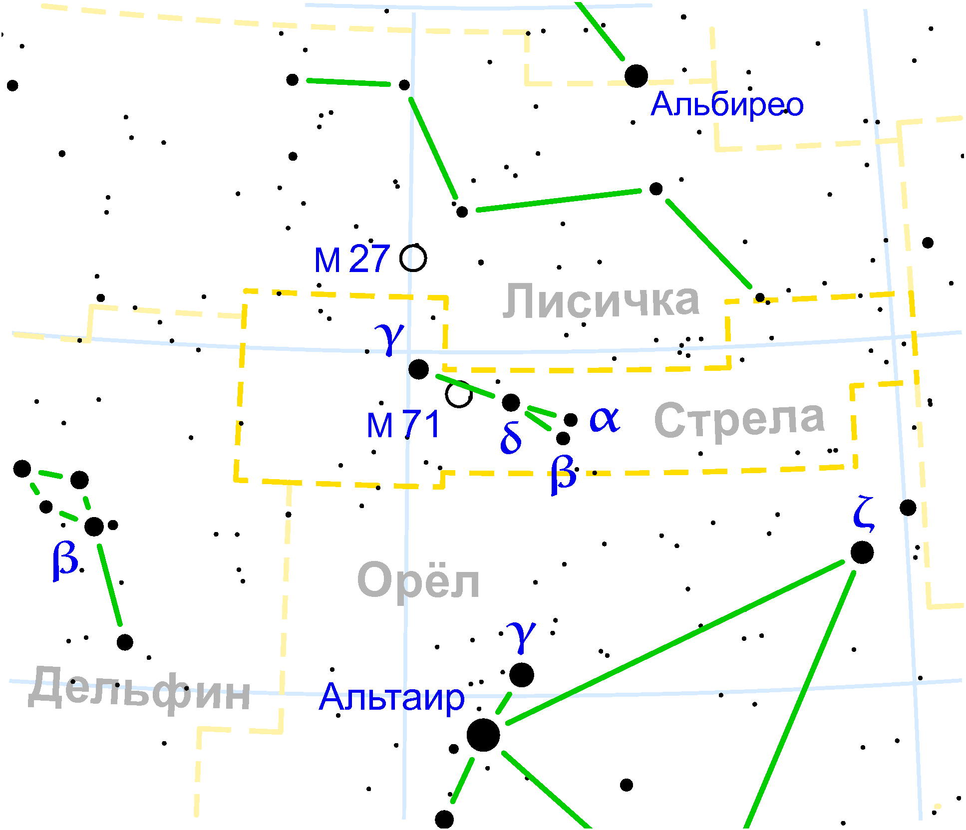 Sagitta constellation map in Russian